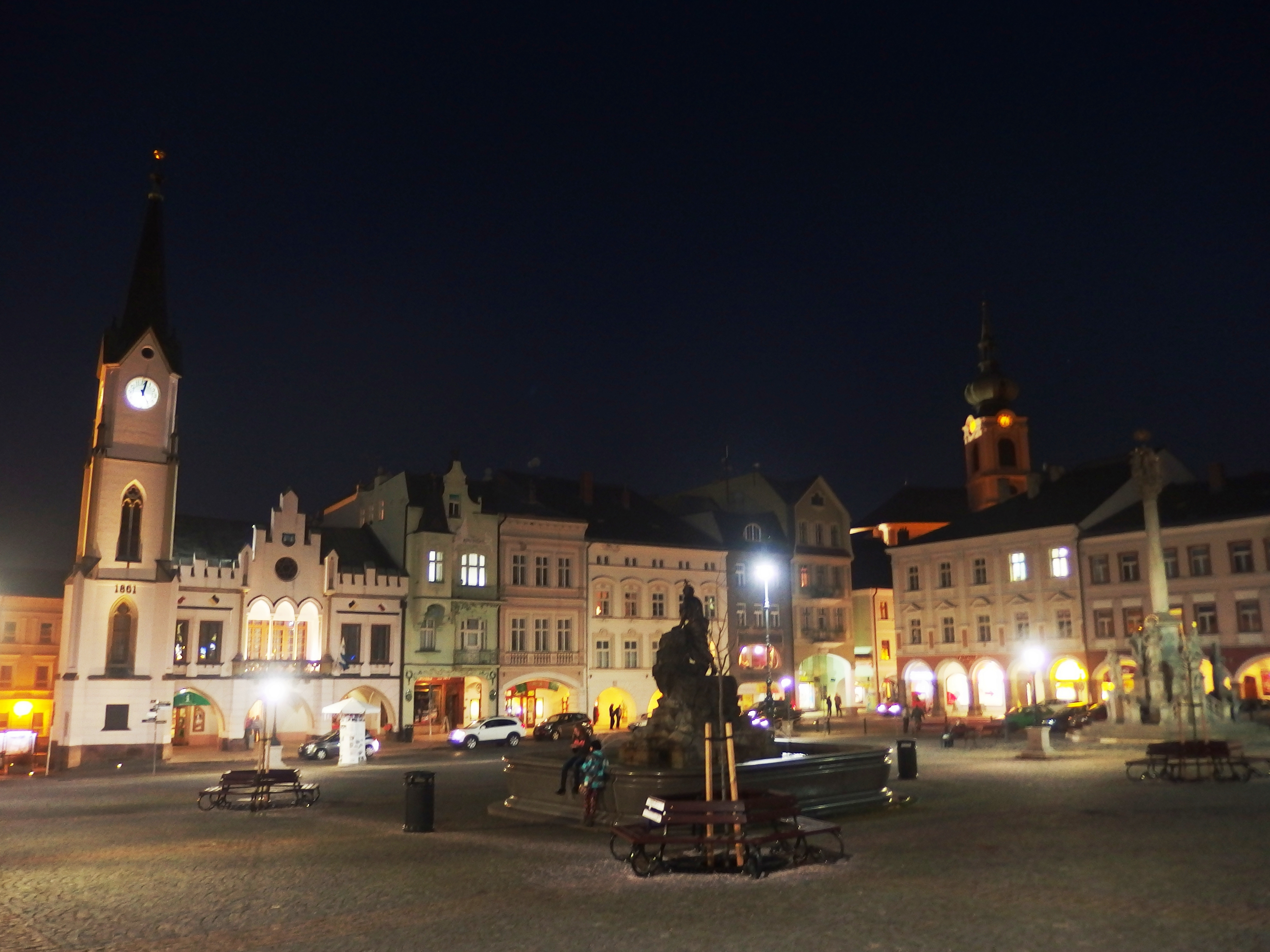 Trutnov, Czech Republic.